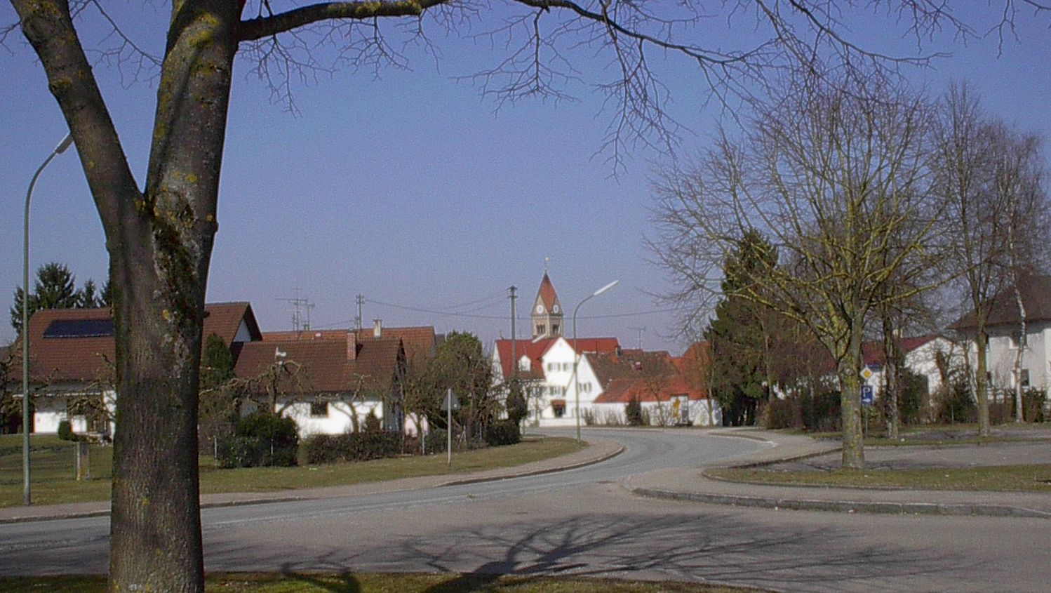 Das Dorf Weichering